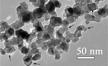 Figure S5. Transmission electron microscopy image showing primary crystallites (see arrows, for example) in P25 aggregates obtained from SRM 1898 dry powder.